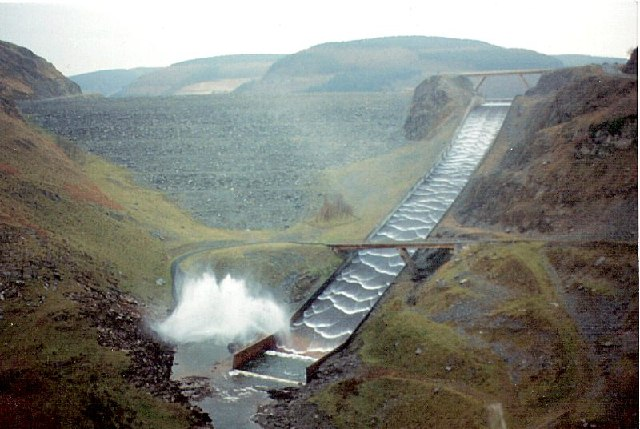 Llyn Brianne in overflow. This picture, taken in 1988, shows Llyn Brianne in overflow.